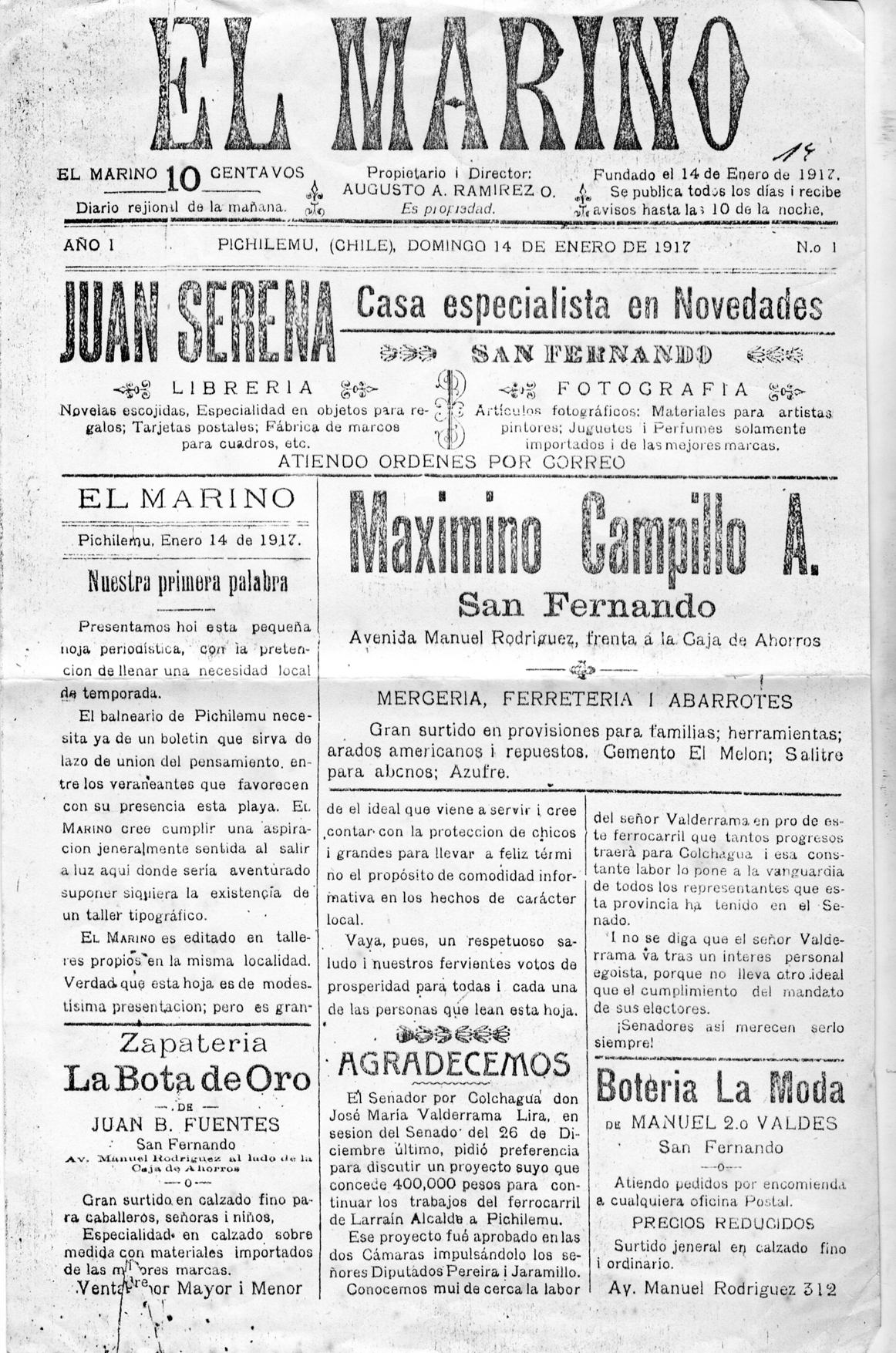 Main page of an edition of "El Marino", newspaper published in Pichilemu, Chile, between January and February 1917.